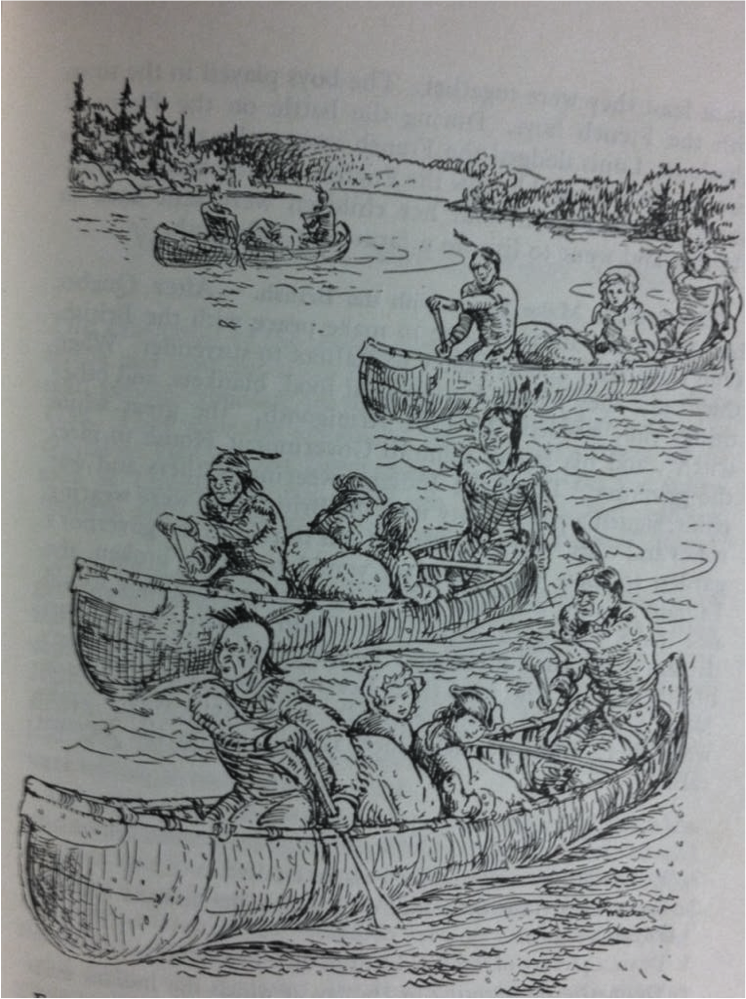 Raid On Lunenburg Captives By Donald Mackay